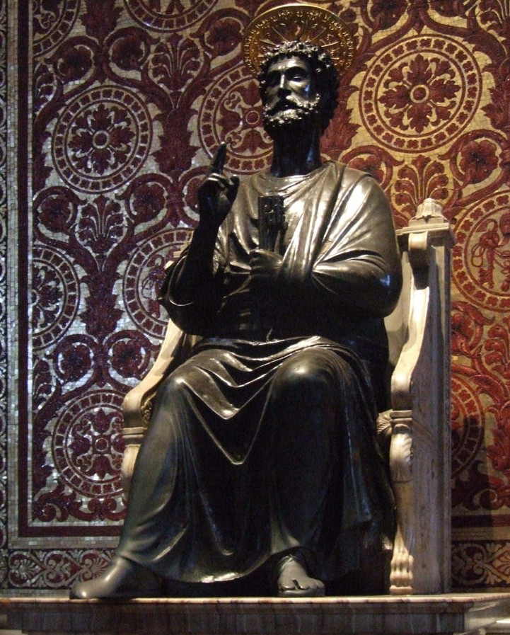 Ancient statue of St. Peter in St. Peter's Basilica, Rome. Possibly the work of Atnolfo di Cambio. Thought by some historians to be much older.